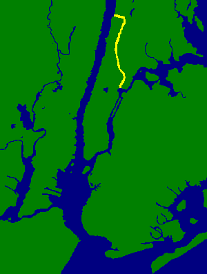 Map highlighting the Harlem River. Accessible to color-blind people for the most part.